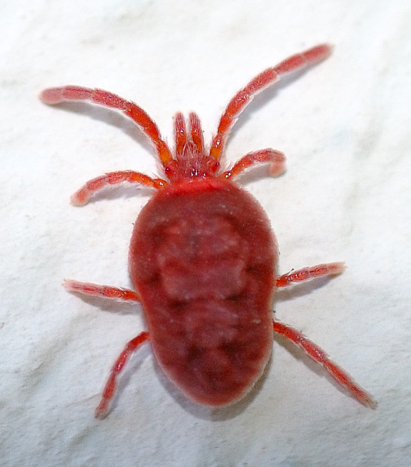 This image shows an about 3.2 mm long Trombidium holosericeum mite.